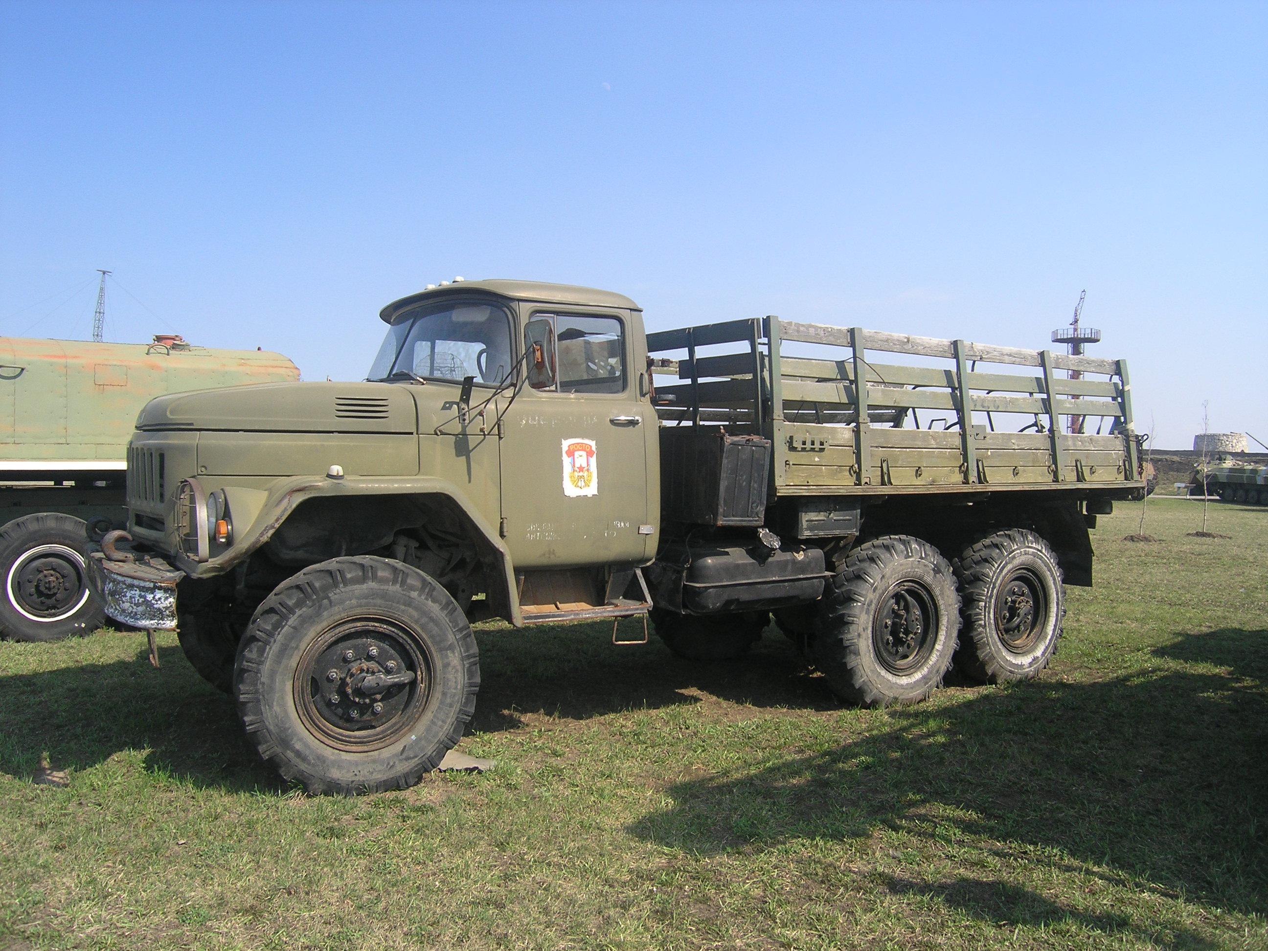 ZiL-131, technical museum, Togliatti, Russia